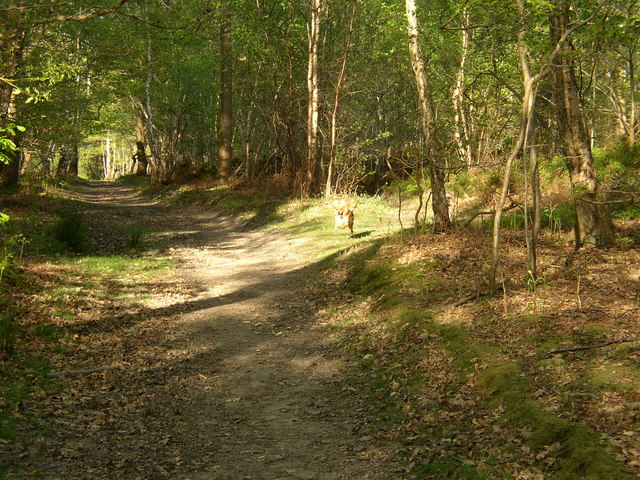 Redhill Wood, Seal Chart This footpath crosses the A25 Maidstone Road.